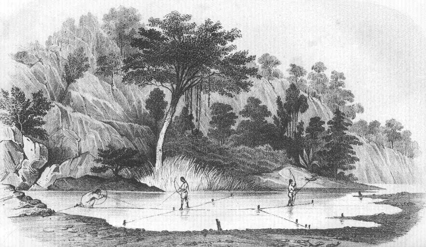 Yuracares Indians shooting fish Subject: Indians of South America--Fishing, Yuracares Indians--Fishing Tag: Traditional Fisheries